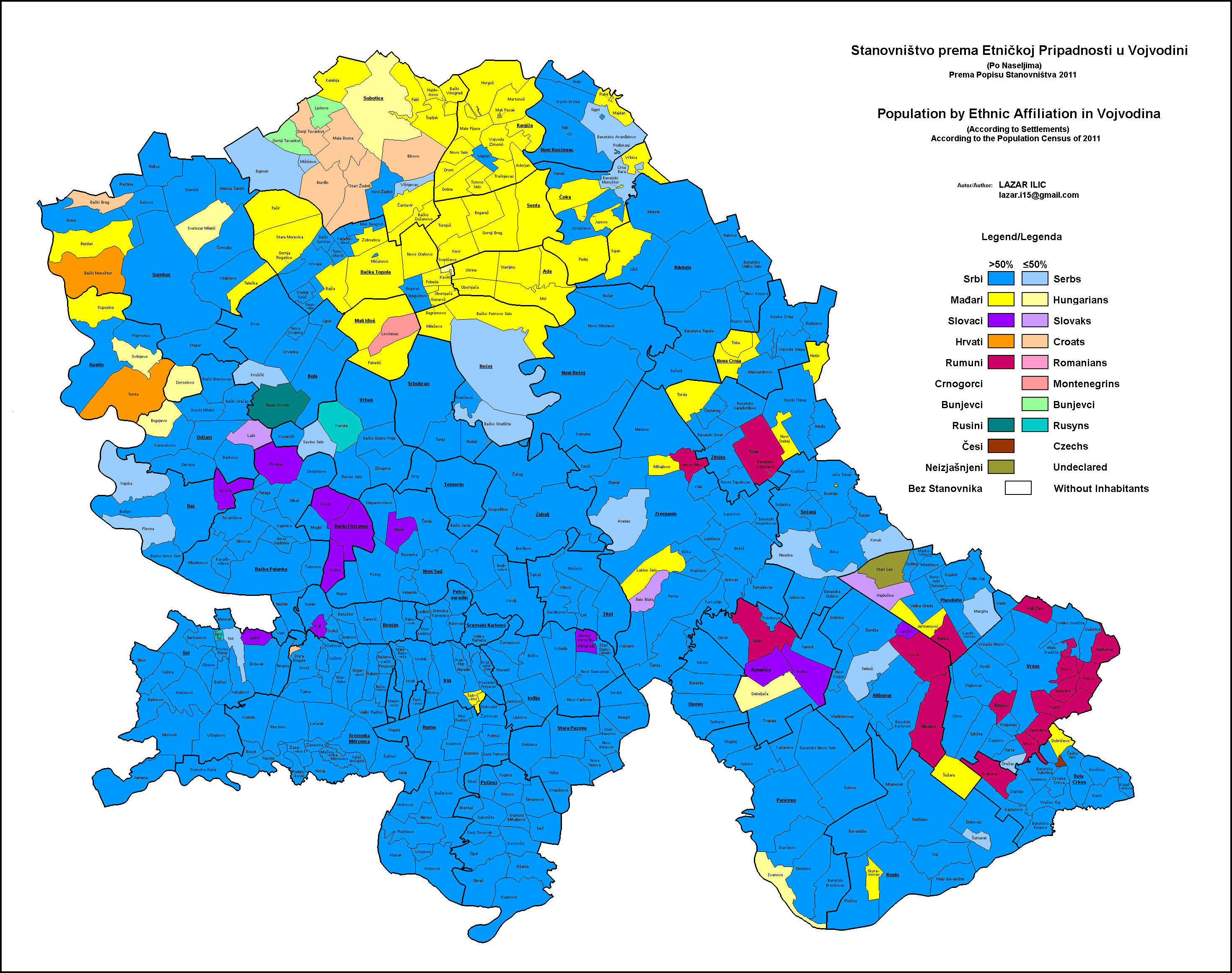 This is an ethnic map of Vojvodina, according to the 2011 population census. Српски (ћирилица): Ovo je karta Vojvodine, po popis ustanovnistva 2011ve godine.